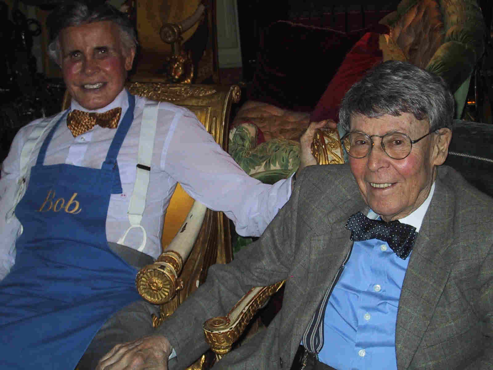 Robert Denning and Edgar de Evia in the Denning apartment in the Lombardy at 111 East 56 Street.